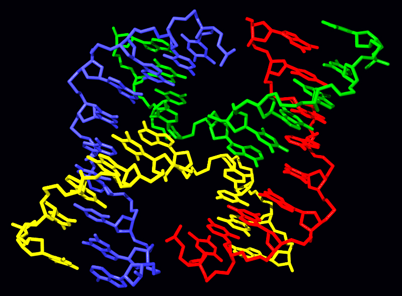 Image of Holliday junction created from PDB file 1M6G